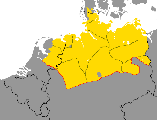 Map of Low Saxon or Low German dialects after 1945 and the expulsion of Germans out of Silesia, Pomerania and Prussia. Yellow: (from west to east) Dutch Low Saxon Westphalian Low Saxon (strict sense) East Frisian Eastphalian Holsteinish Schleswigish Mecklenburgish North Markish South Markish